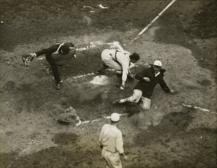 Original Caption: New York Giants player safe at home plate, in a World Series game against the Washington Senators, 1924. Image Courtesy of the New York Public Library , "The Pageant of America" Collection / v.15 - Annals of American sport / (unpublished photographs) / Baseball.